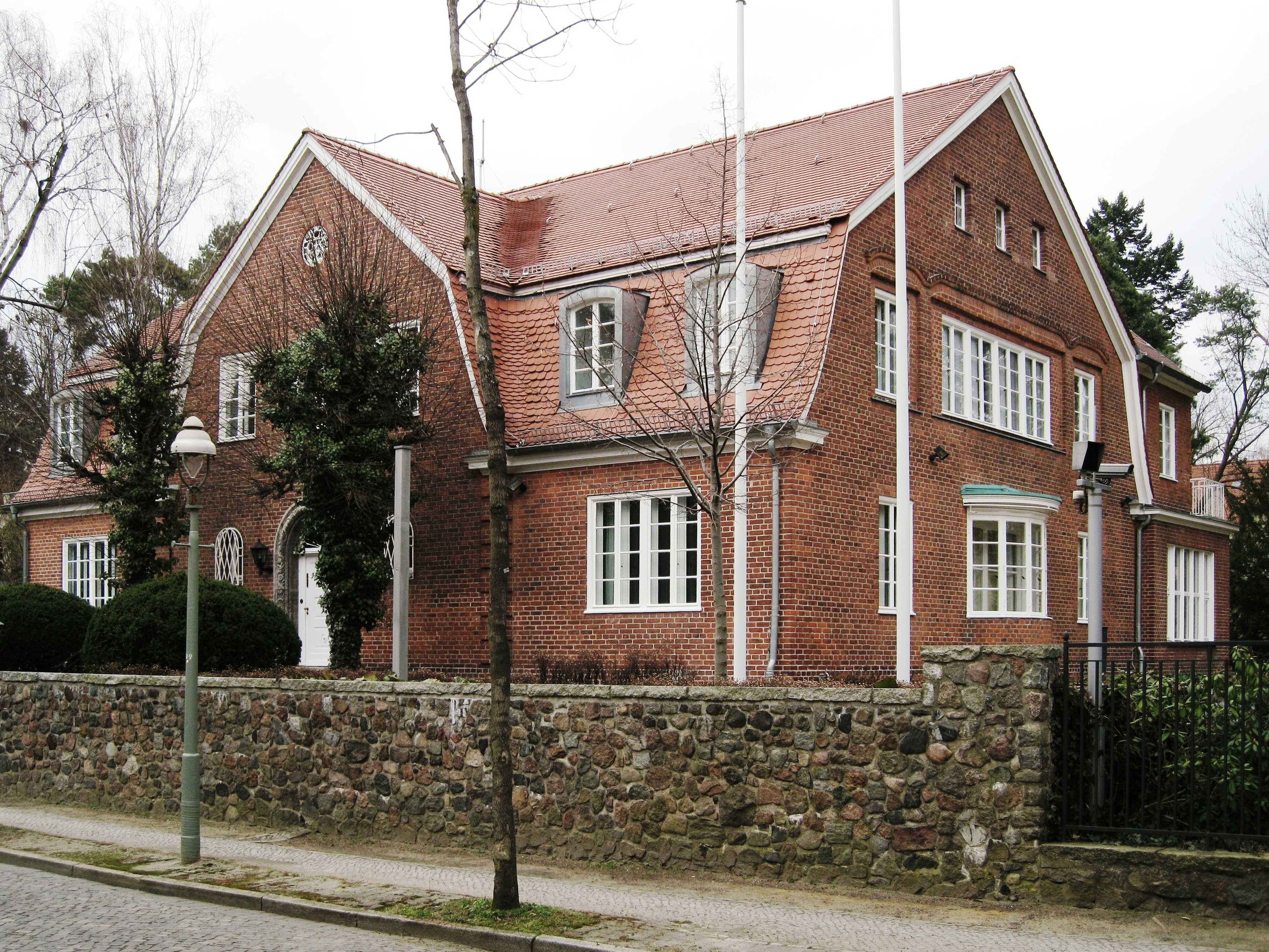 Cottage of architect Bruno Ahrends (1878–1948) in Berlin-Dahlem, built 1911/12. The ample backyard was also planned by Ahrends in 1914. In 1917 the estate was sold to the Berlin banker Gustaf Ratjen. After WWII the estate was used by the US legate of West-Berlin. From 1996 it was the service villa of the President of German parliament Bundestag. Differently from that it was used by the President of Germany, Johannes Rau and his family between 1999 and 2004 as the President of Bundestag, Wolfgang Thierse did not use it. In 1921/22 the cottage got a chauffeur building with a double garage which was also planned by Ahrends for the subsequent owner of the estate.